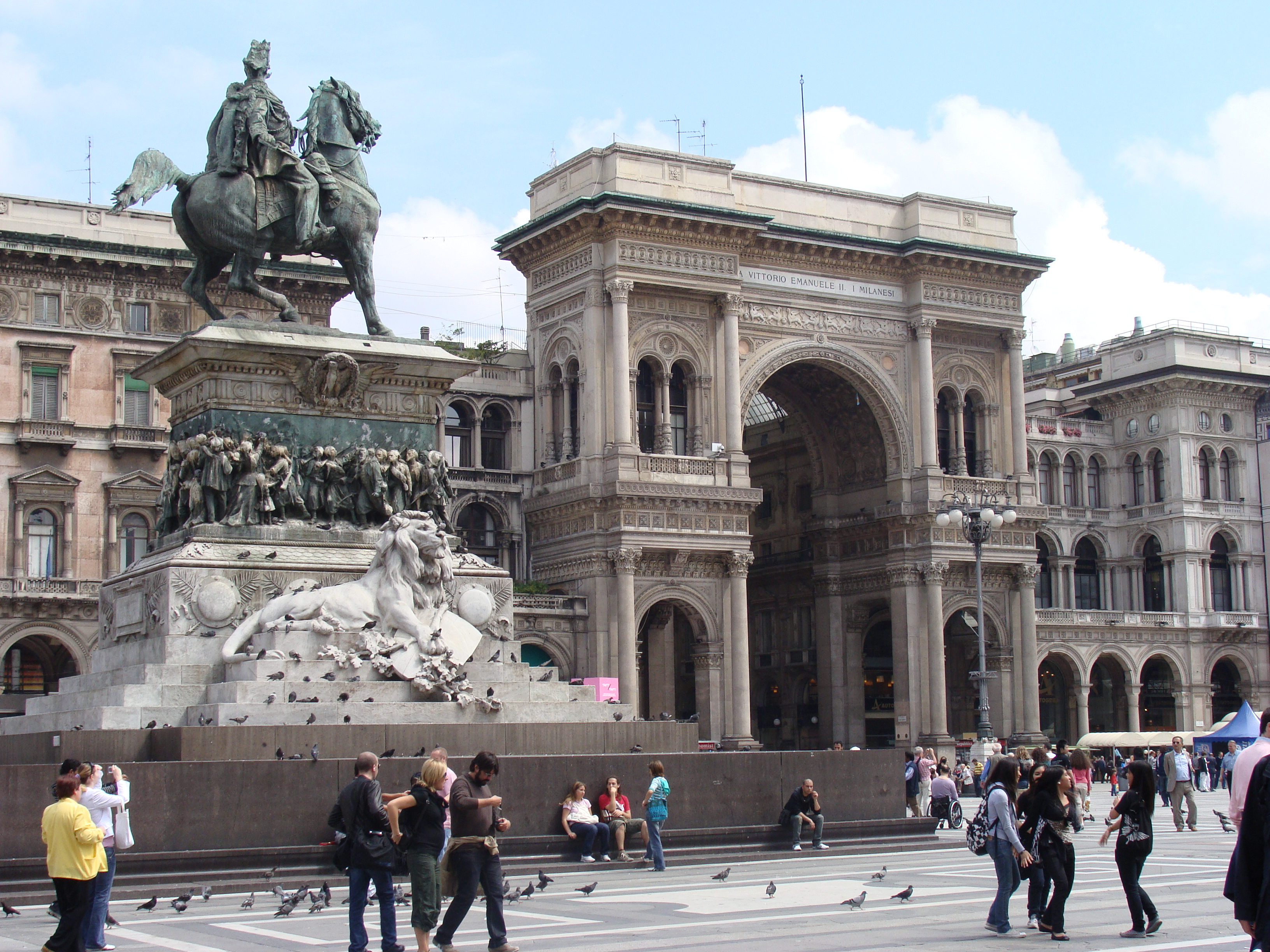 The monument of Vittorio Emanuel II before the Galleria Vittorio Emanuele. Milano. 2008